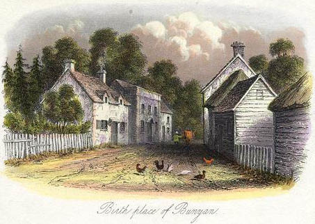 The birth place of John Bunyan. Steel engraved print with hand colour, published in The Youth's Magazine, 1848. Harrowden, Bedfordshire